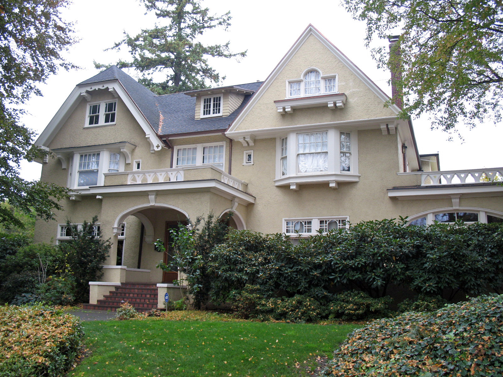 National Register of Historic Places listings in Northeast Portland, Oregon. Boschke-Boyd House, 2211 NE Thompson St, Portland, OR. Photographed October 25, 2009 from the north side of NE Thompson St. between NE 22nd and NE 23rd Ave.